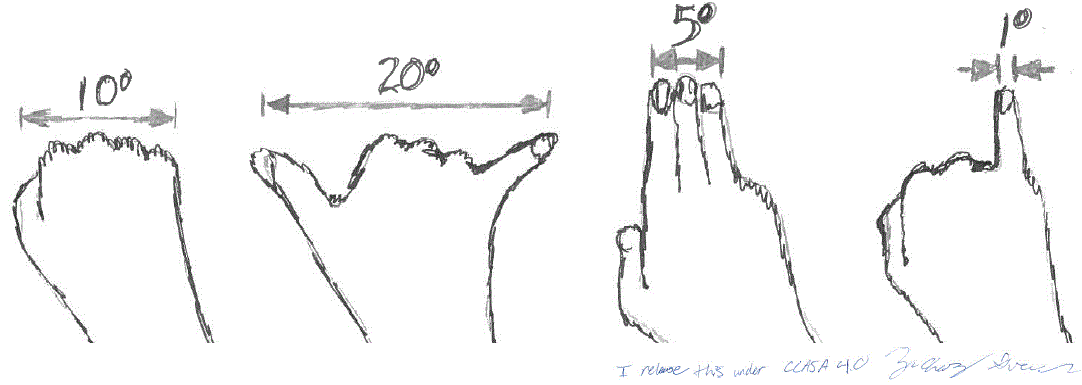 Angular size can be estimated by stretching out your hand and using the landmarks indicated.